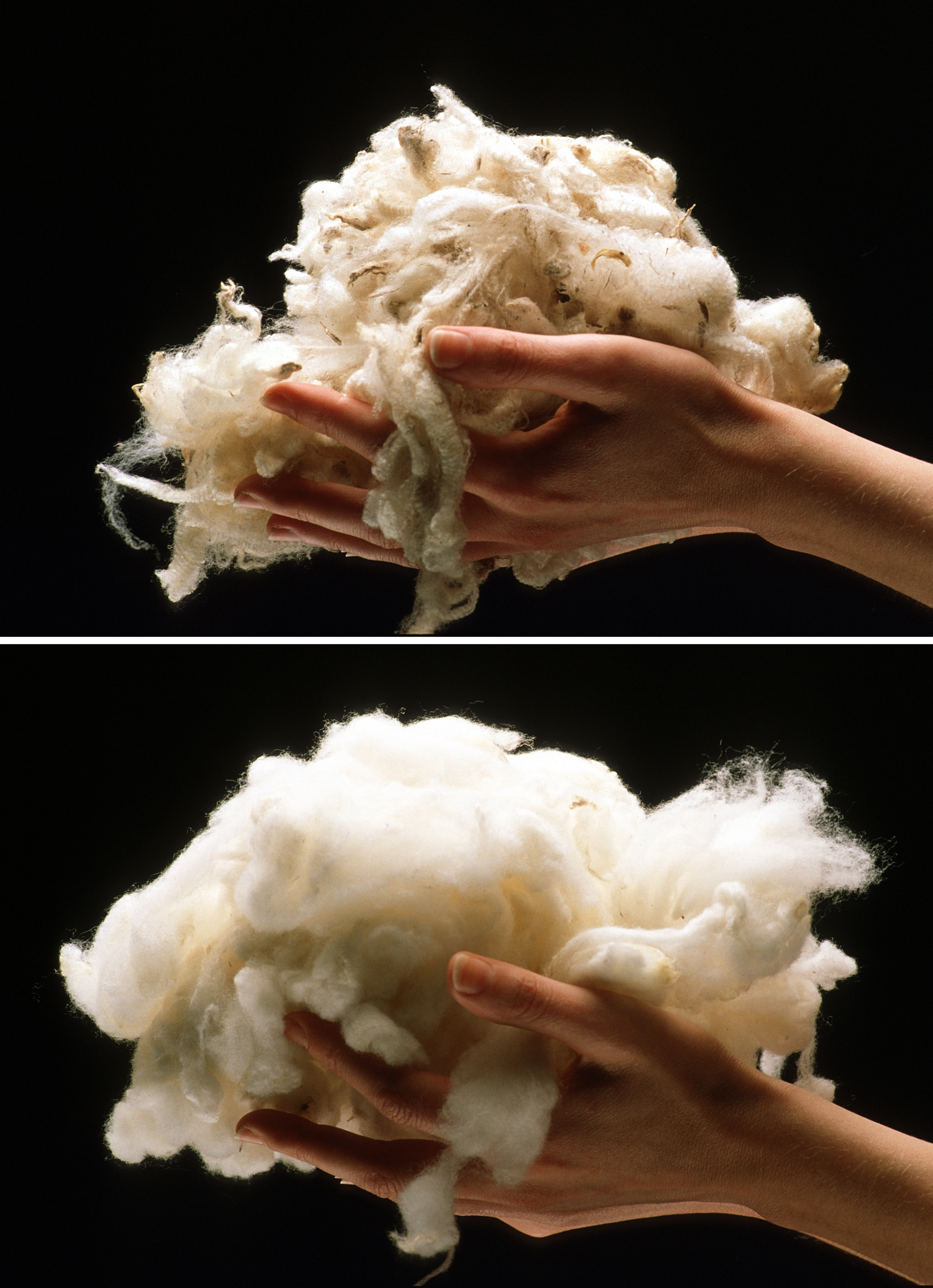 Wool before scouring by the Siroscour process (top), and after (bottom)